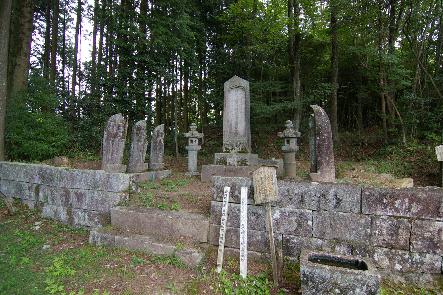 Daimyo Cemetery (Iwamura, Ena City, Gifu Pref., Japan)